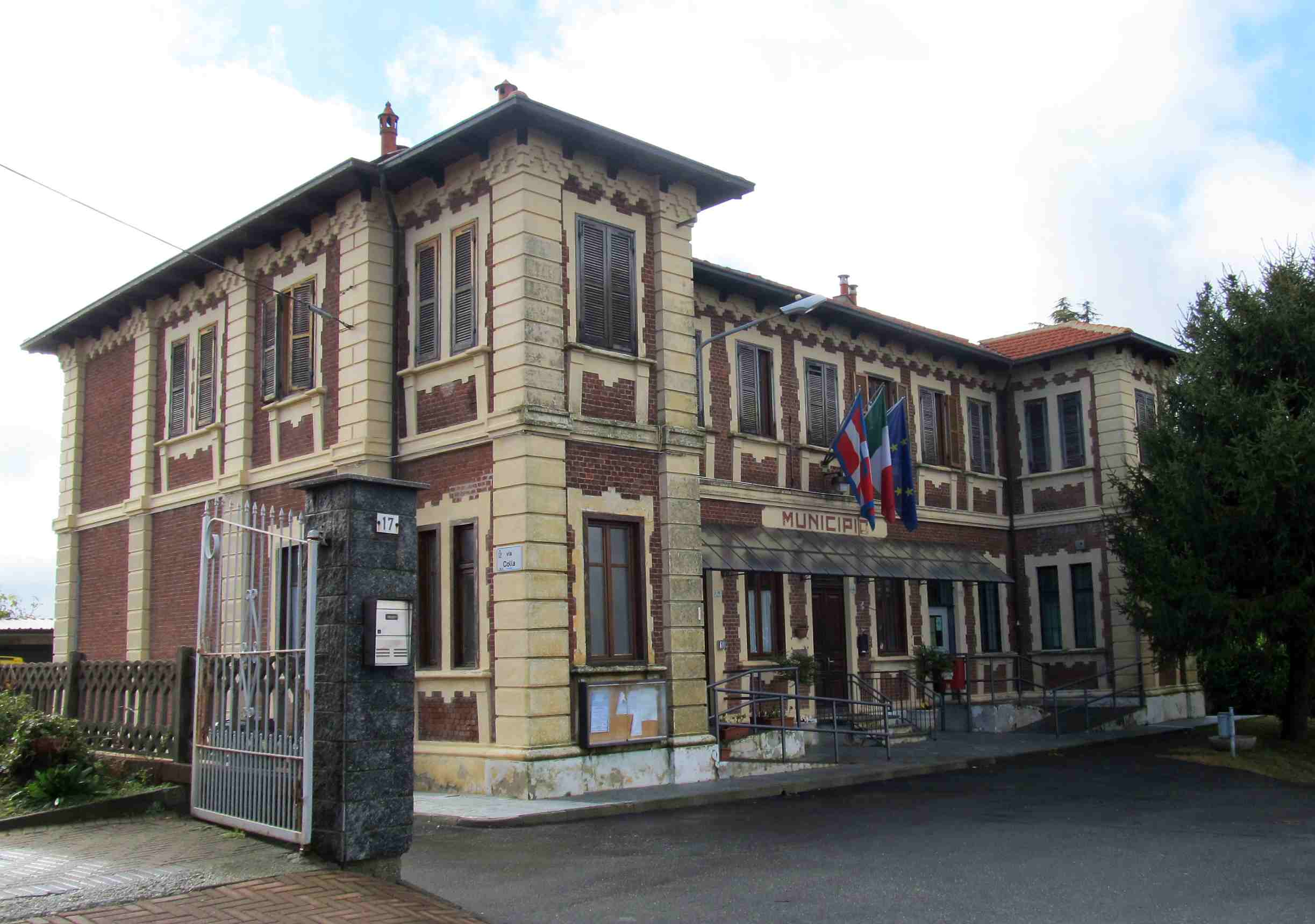 Cinzano (TO, Italy): town hall